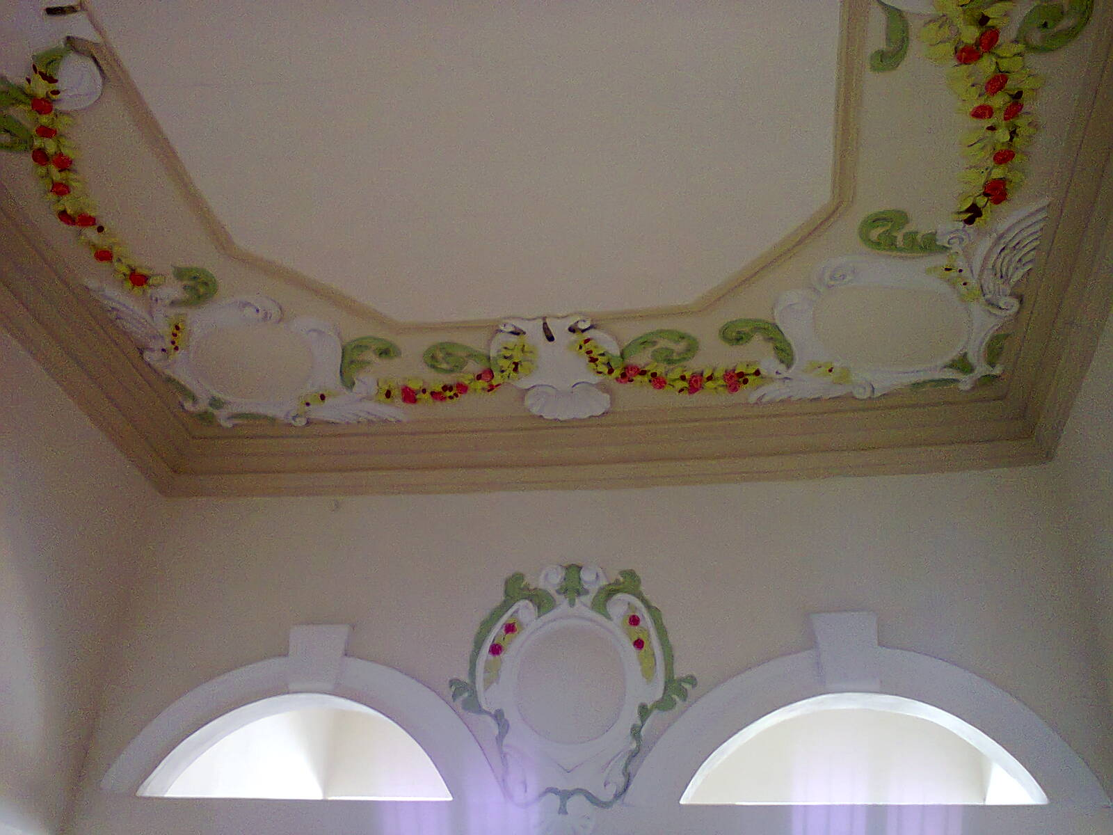 Convent estate Ichtershausen